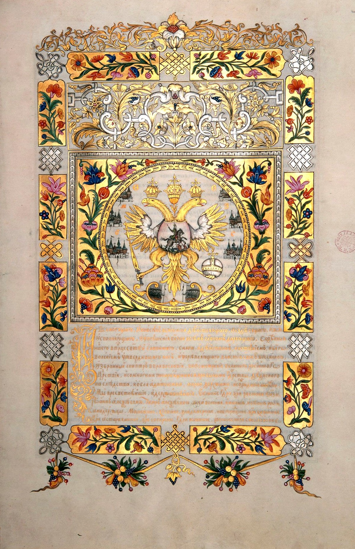 Polish Russian peace agreement 1686 (Grzymułtowski treaty)